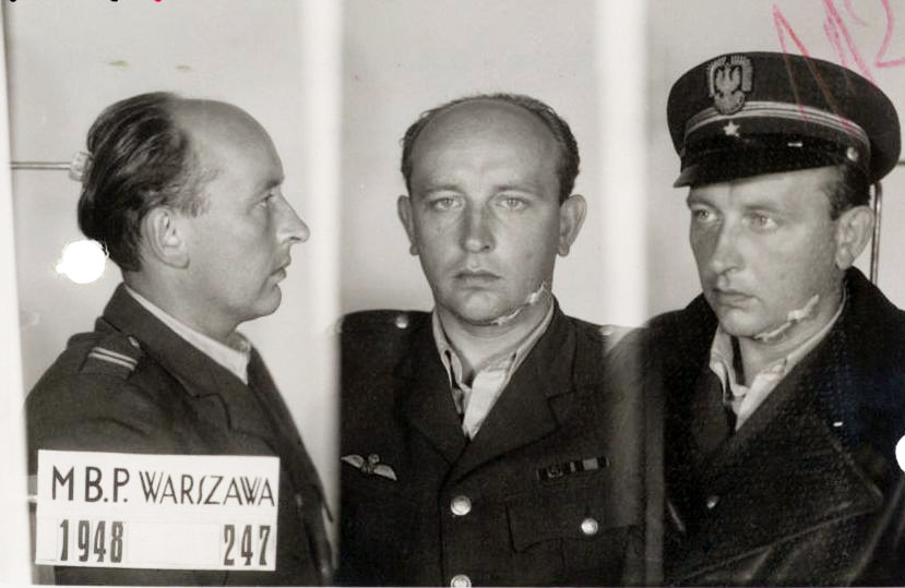 Stanisław Skalski (1915-2004) Polish fighter ace of the Polish Air Force in World War II, later promoted to the rank of brigadier general. Skalski was the top Polish fighter ace of the war and the first Allied fighter ace of the war. In 1948 arrested by Communist political police in Poland. Here mug shot after arrest